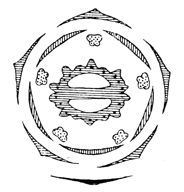 Diagram of a flower of Laserpitium (Apiaceae); Siler ist an old synonym